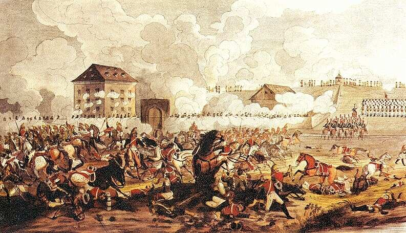 The Battle of Győr june 14, 1809label QS:Lde,"Die Schlacht von Győr am 14. Juni 1809."label QS:Len,"The Battle of Győr june 14, 1809"label QS:Lhu,"A győri csata 1809. június 14-én."